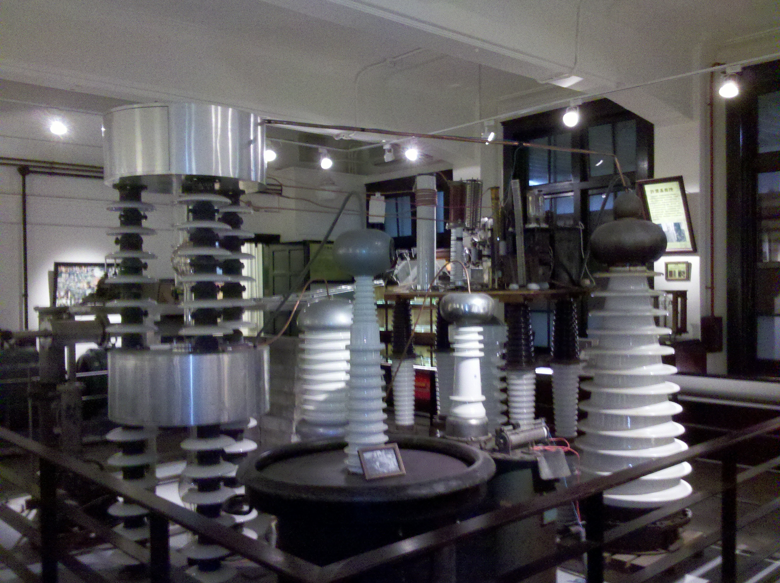 Interior of NTU Heritage Hall of Physics